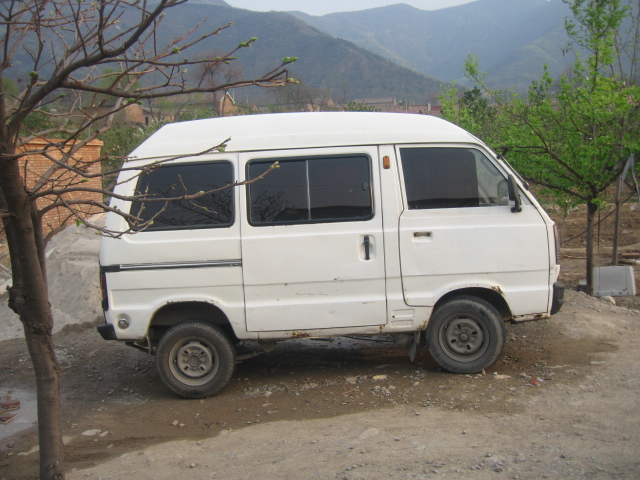 Reminiscent of the yellow taxi vans in the 1990s.